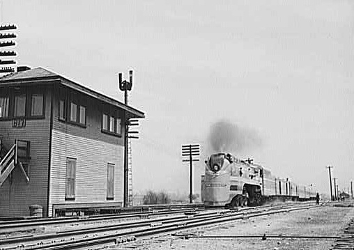 Milwaukee Road class F7 locomotive (type 4-6-4) hauling the "Midwest Hiawatha" past Tower B17, Bensenville, Illinois.Original caption was: "Bensenville, Illinois. The "Midwest Hiawatha" of the Chicago, Milwaukee, Saint Paul and Pacific Railroad speeding through Bensenville, Illinois"